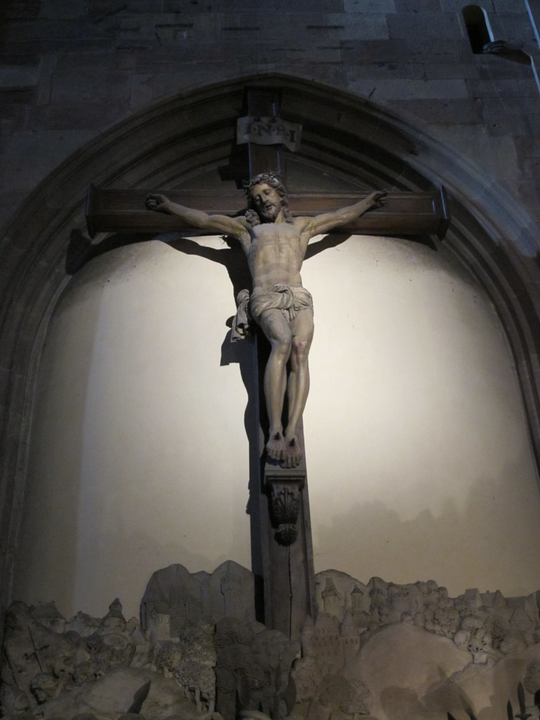 Monumental crucifix in the northern transept of Strasbourg Cathedral